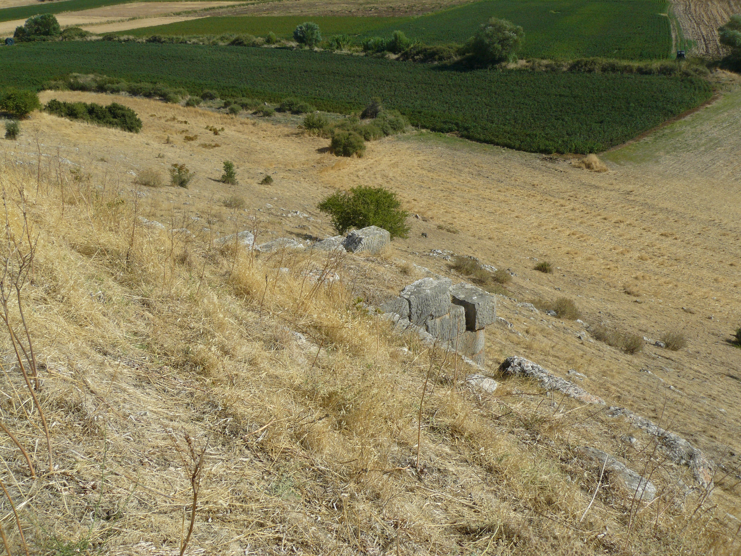 Archaeological site of Hyampolis, Fthiotis, Greece. North-eastern tower.